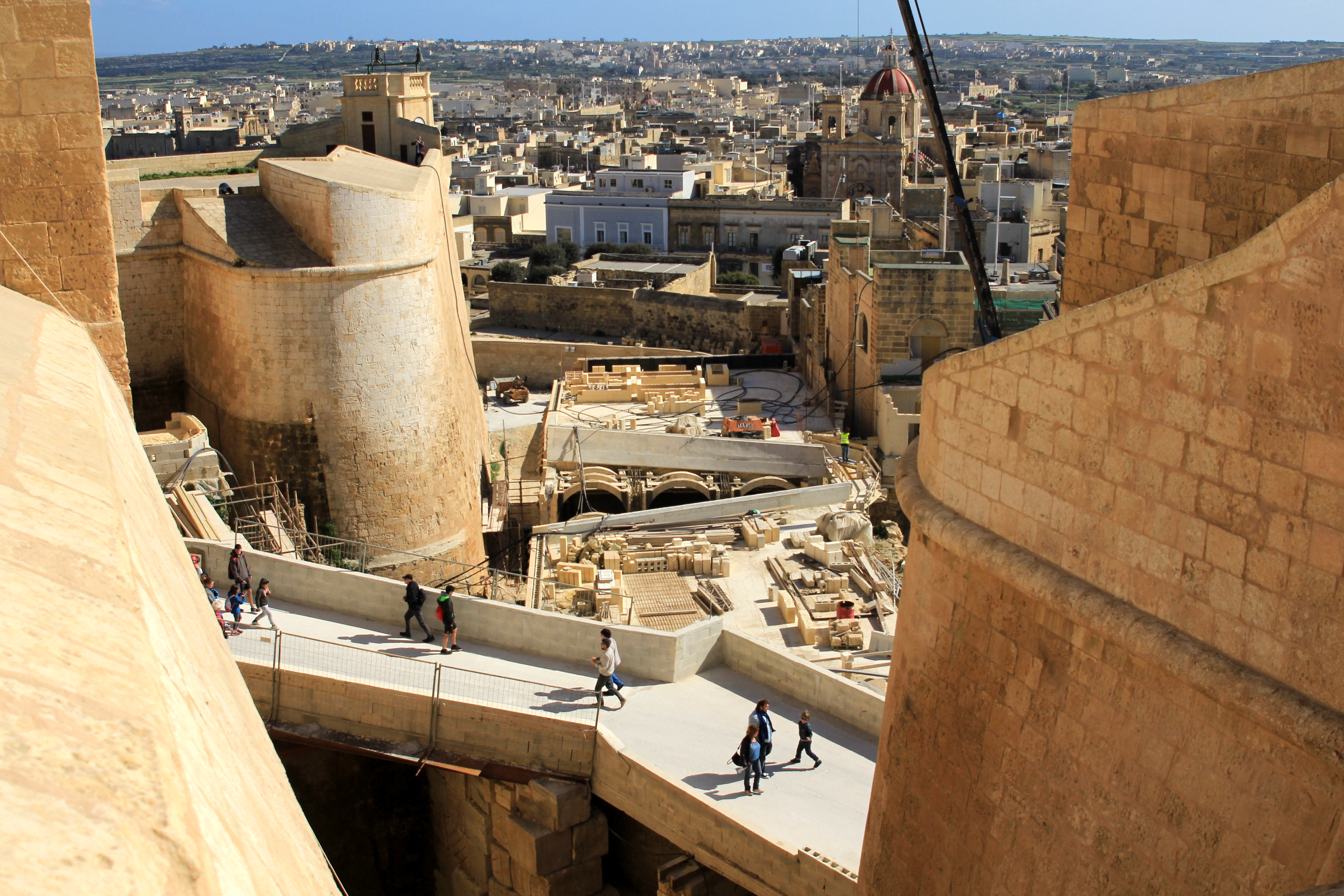 Improvement work in the citadella of Victoria, Gozo, Malta